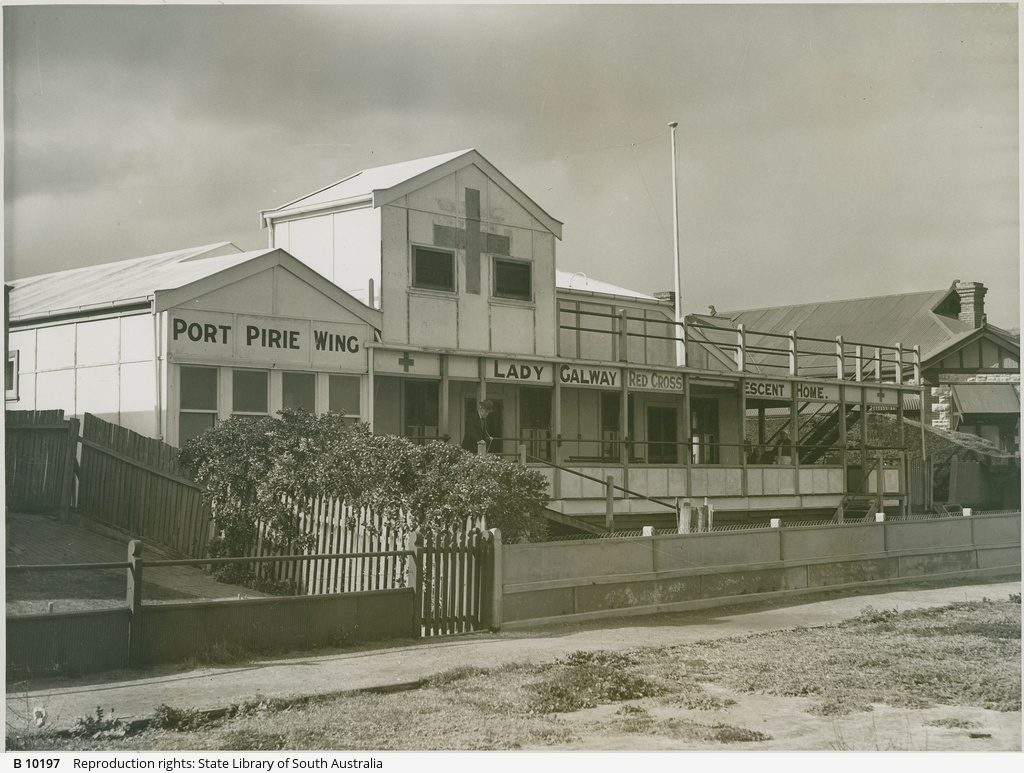 Lady Galway Home for Convalescent Soldiers, Henley Beach. Held in the State Library of South Australia, call no. B 10197.